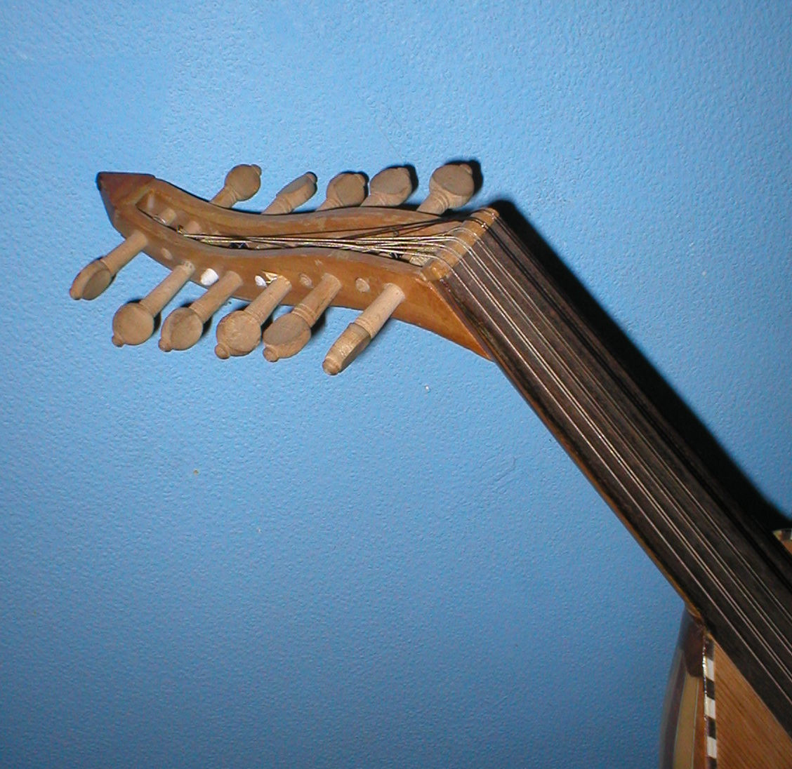 The pegbox of a oud.